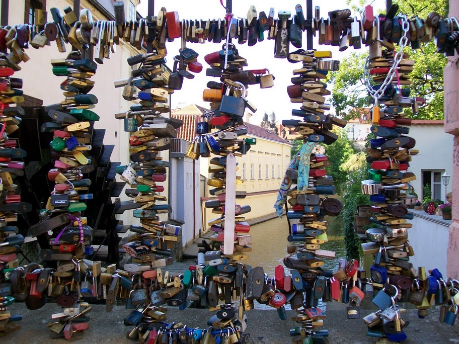 Love locks on Velkopřevorské náměstí, Prague. Near Lennon Wall.